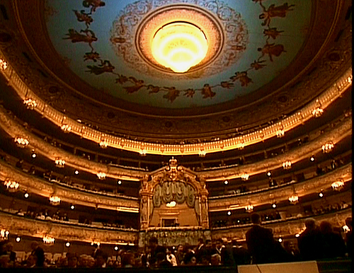 ST PETERSBURG. Mariinsky Theatre.